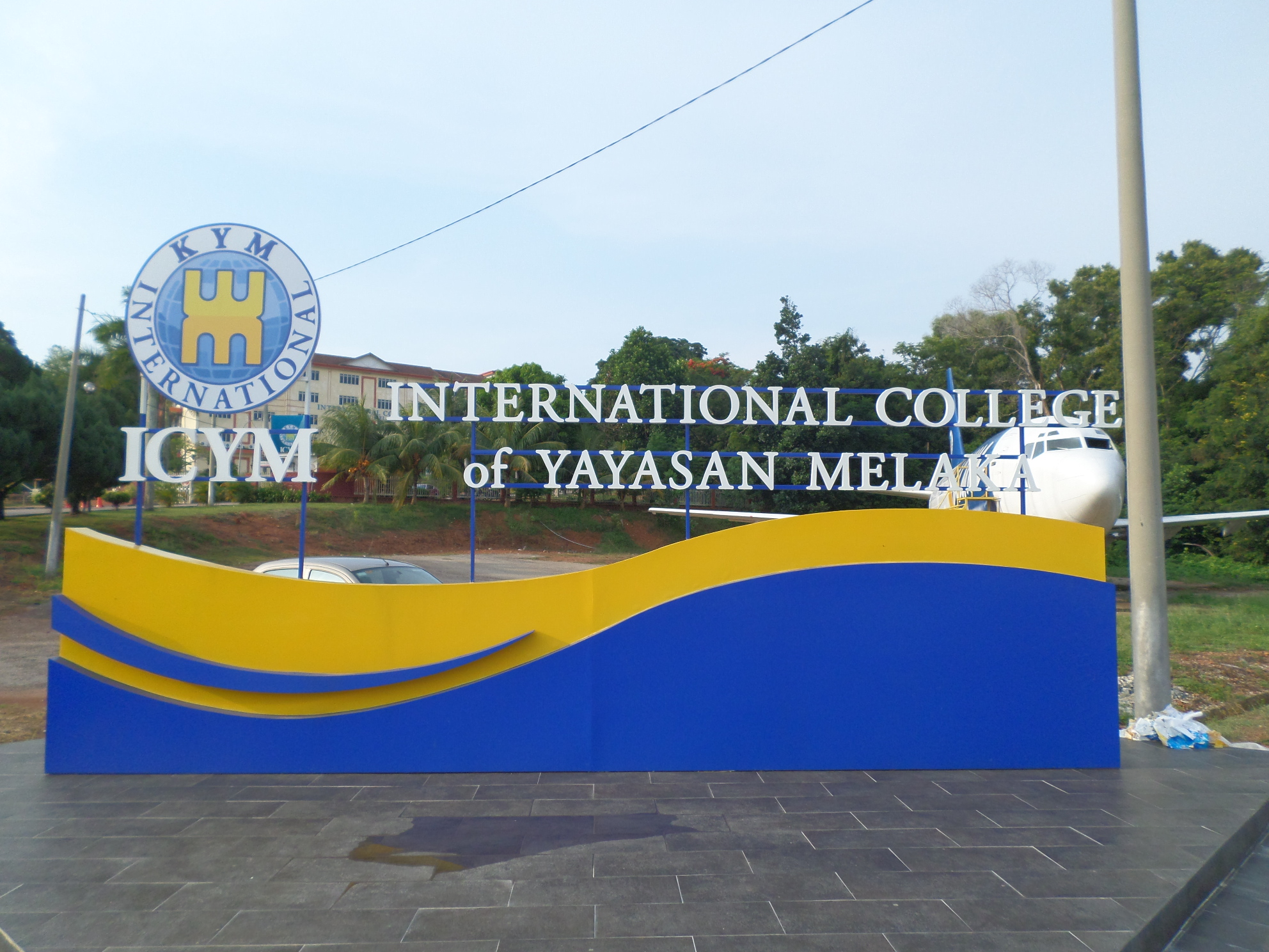 International College of Yayasan Melaka, Bukit Sebukor, Malacca, MalaysiaBahasa Melayu: Kolej Antarabangsa Yayasan Melaka, Bukit Sebukor, Melaka, Malaysia